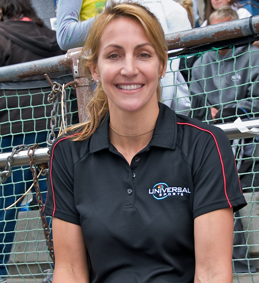 Summer Sanders at the 2009 Santa Clara Grand Prix. Photo copyright by JD Lasica. for commercial republication rights.